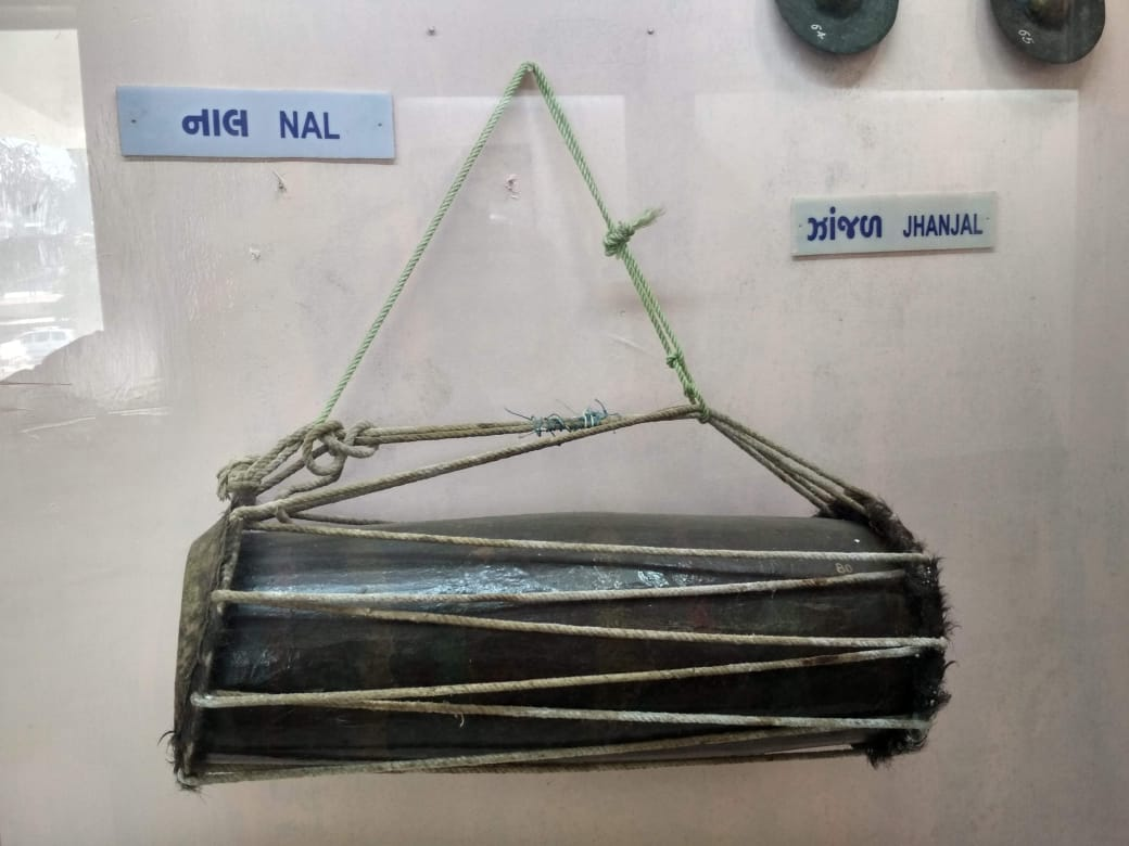 jhanjal is south gujarat music instruments it's use make a diffirent tones. This photo has been taken in the country: India